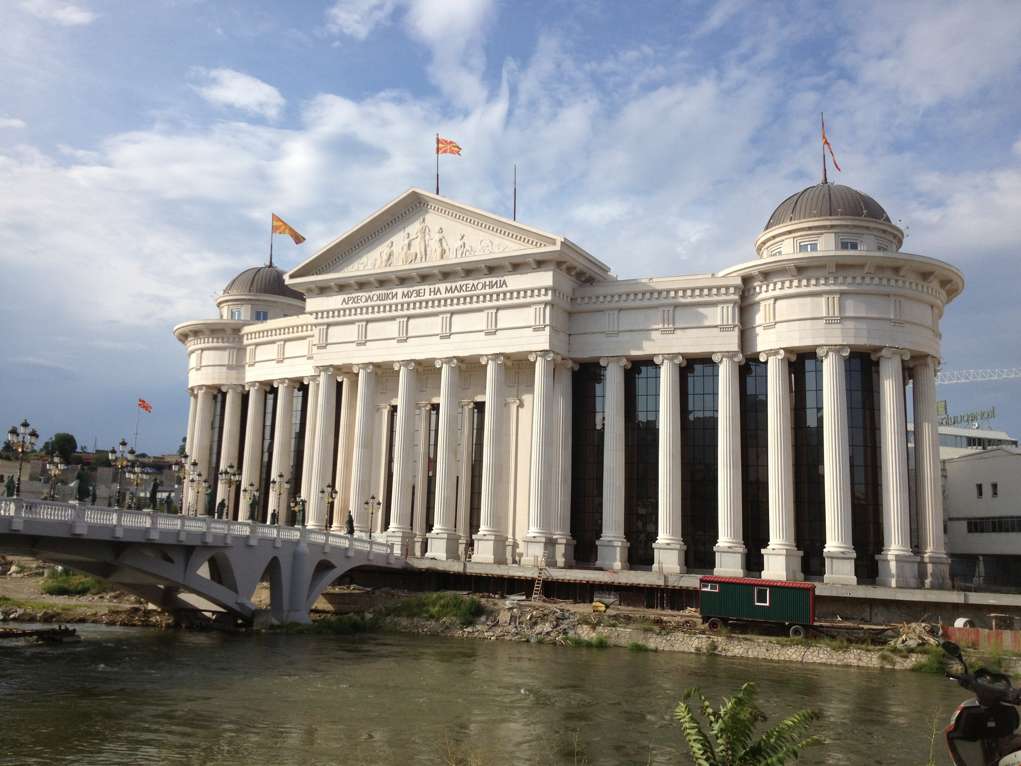 The Museum of Archaeology in Skopje